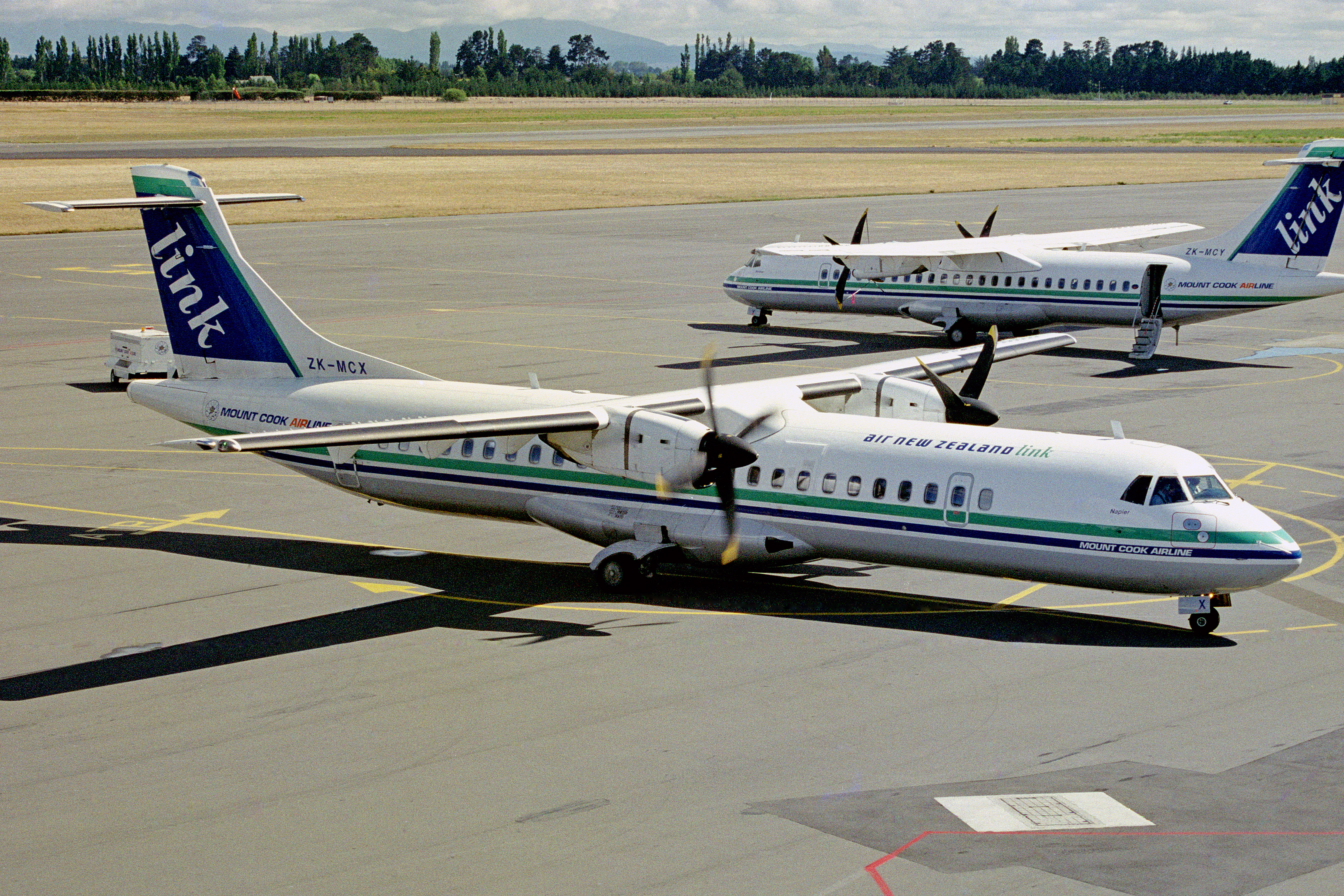 ZK-MCX ATR.72-212 ANZ Link-Mount Cook